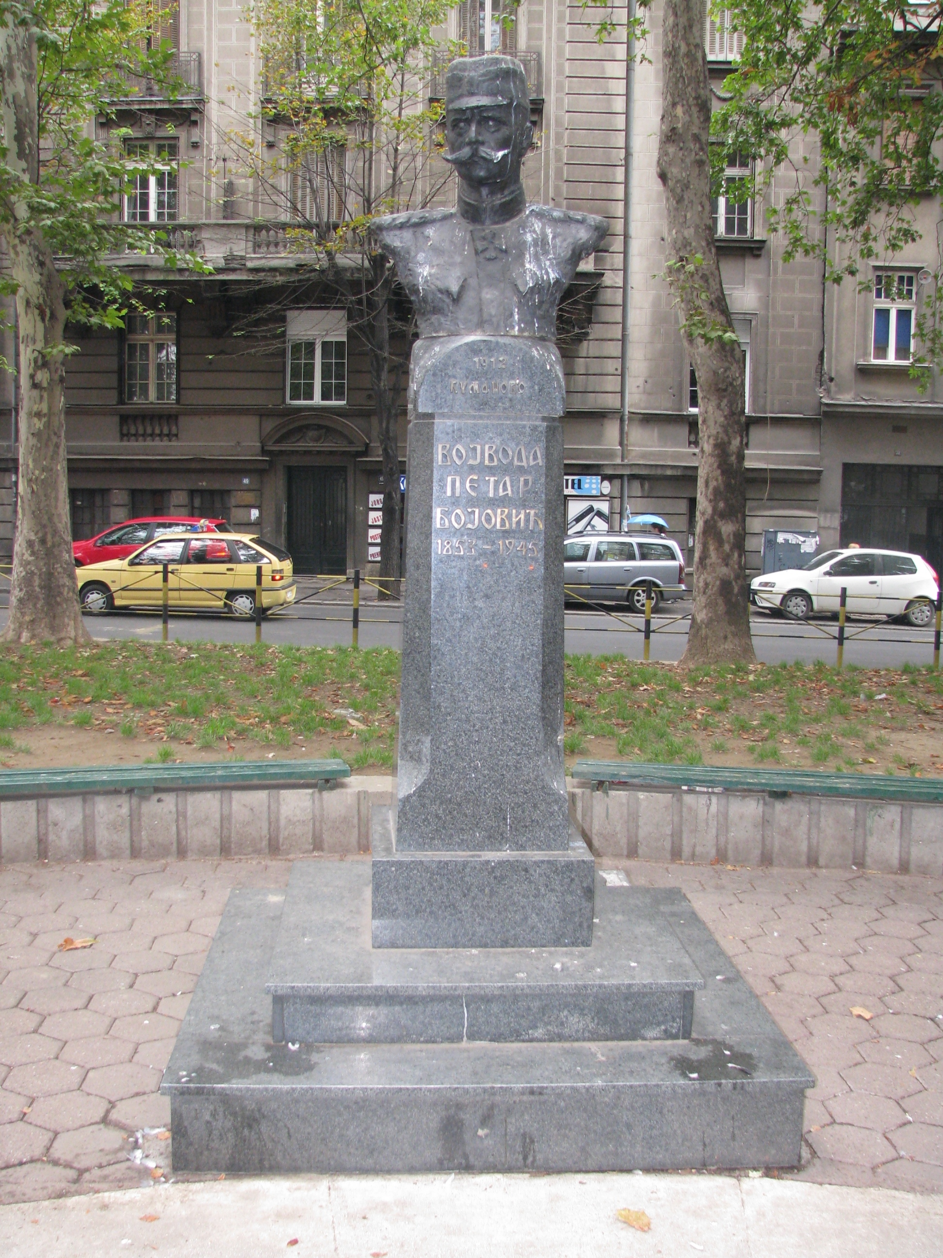 Monument to Petar Bojović in Belgrade (Kalenić market)